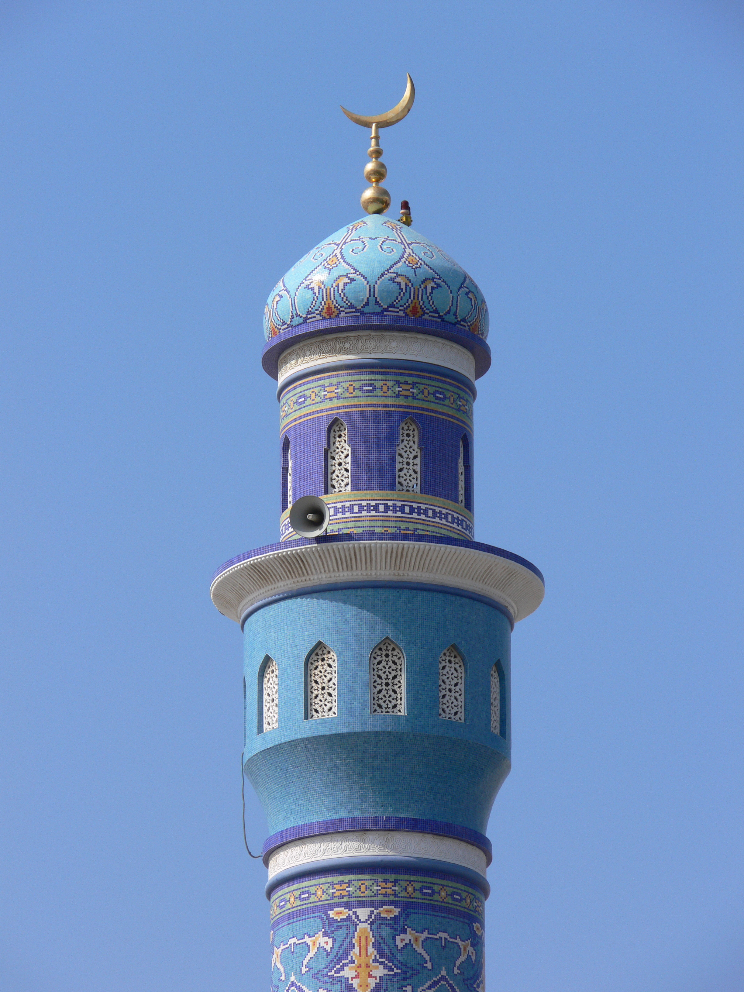 I like how the few clouds in the sky give the illusion of smoke emanating from the incense burnerBlue minaret, blue sky - P1050373.JPG